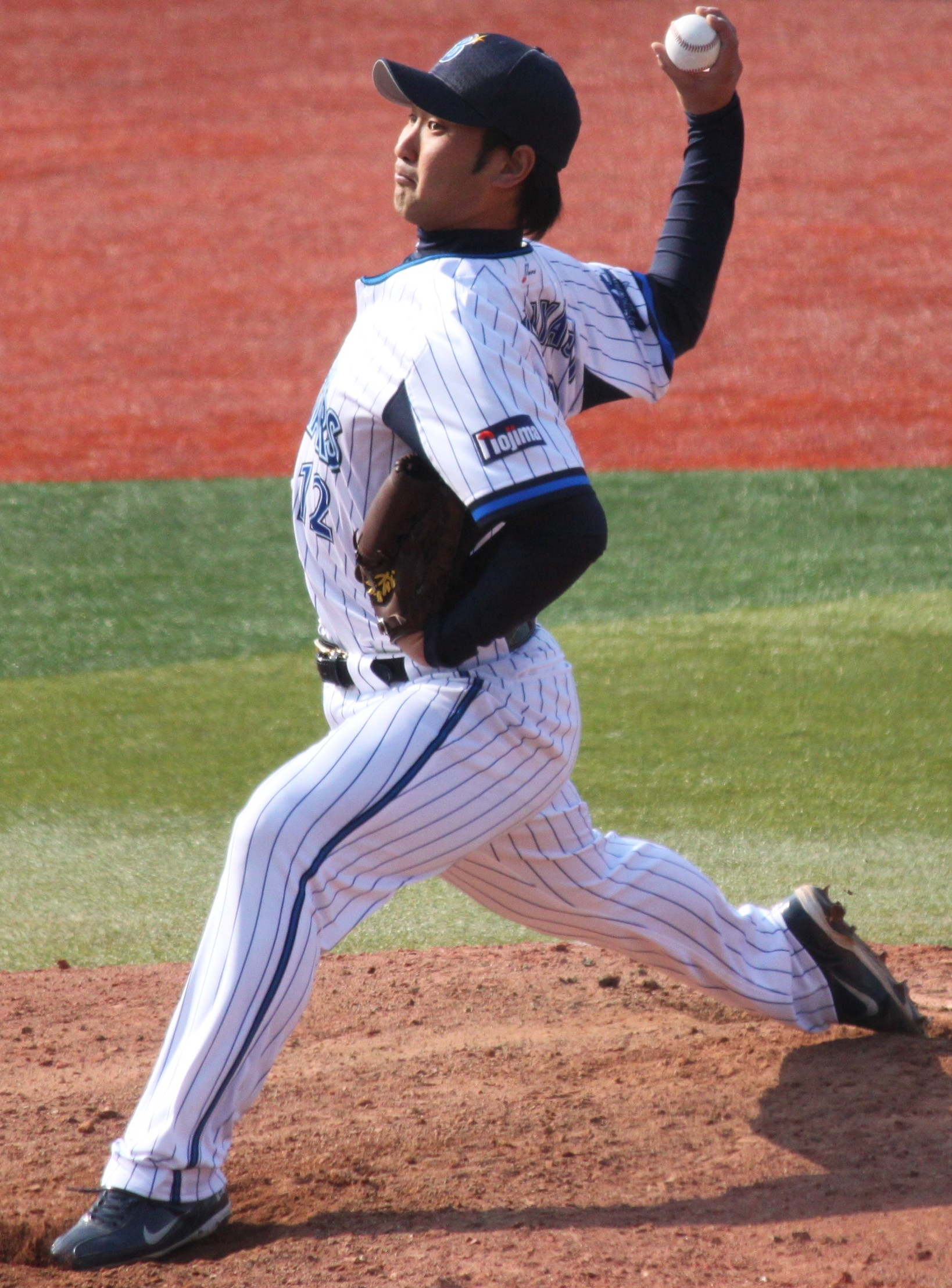 Hiroshi Kobayashi, pitcher of the Yokohama DeNA BayStars, at Yokohama Stadium.